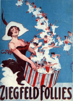 Ziegfeld Follies, 1912 advertising art, scanned by Infrogmation from period sheet music in own collection.